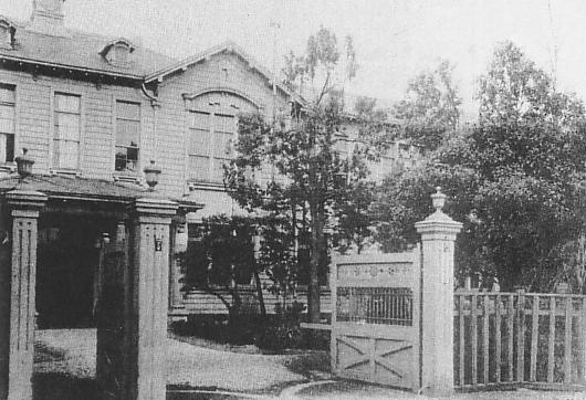 Saitama Prefectural Normal School